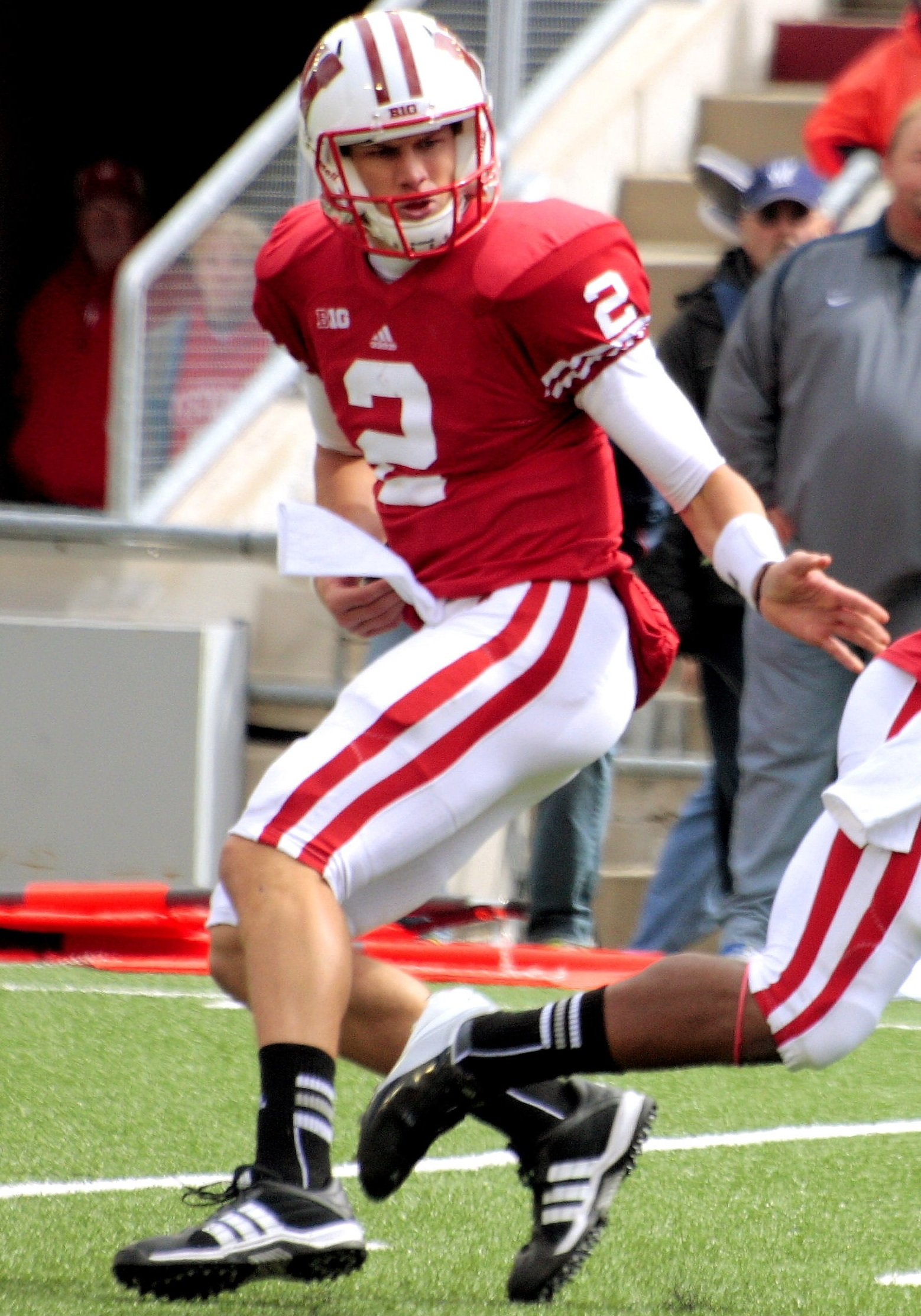 Quarterback Joel Stave handing off the football to Runningback James White Photos of the University of Wisconsin Badgers beating the University of Texas-El Paso Miners 37-26 at Camp Randall Stadium on Saturday, September 22.